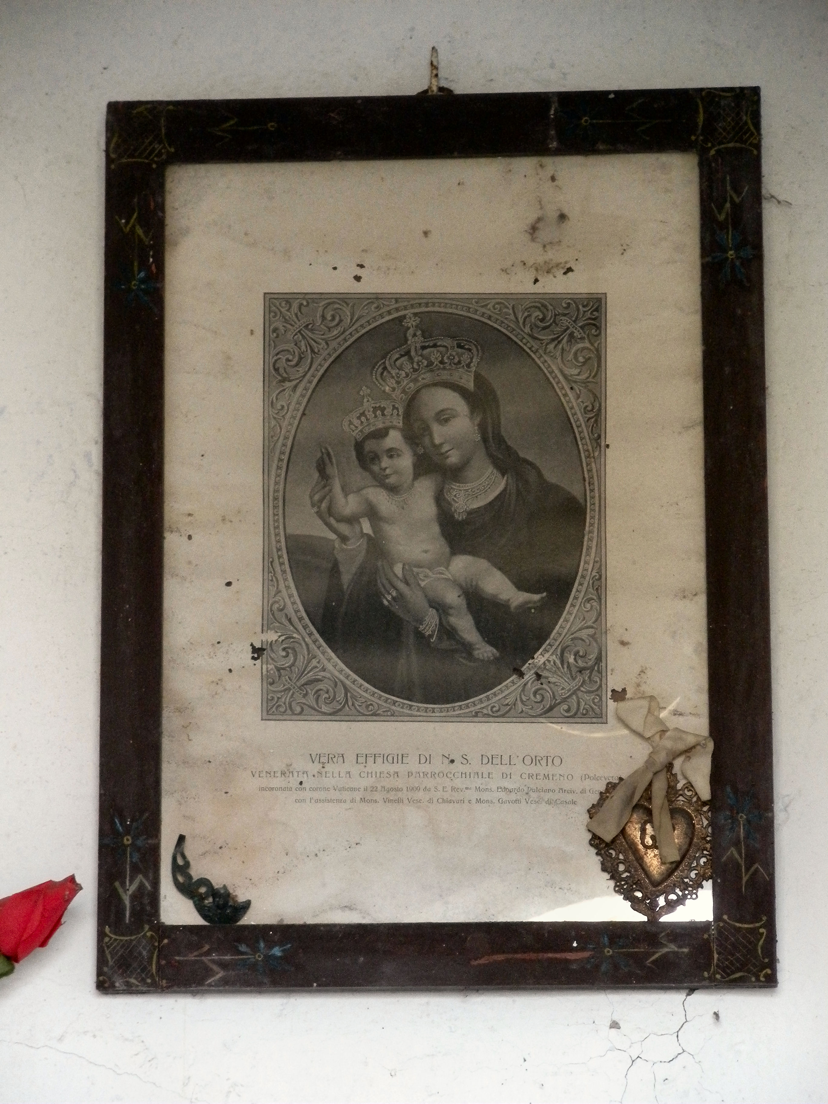 Genoa (Italy), quarter of Bolzaneto, picture of N.S. dell'Orto at Cremeno